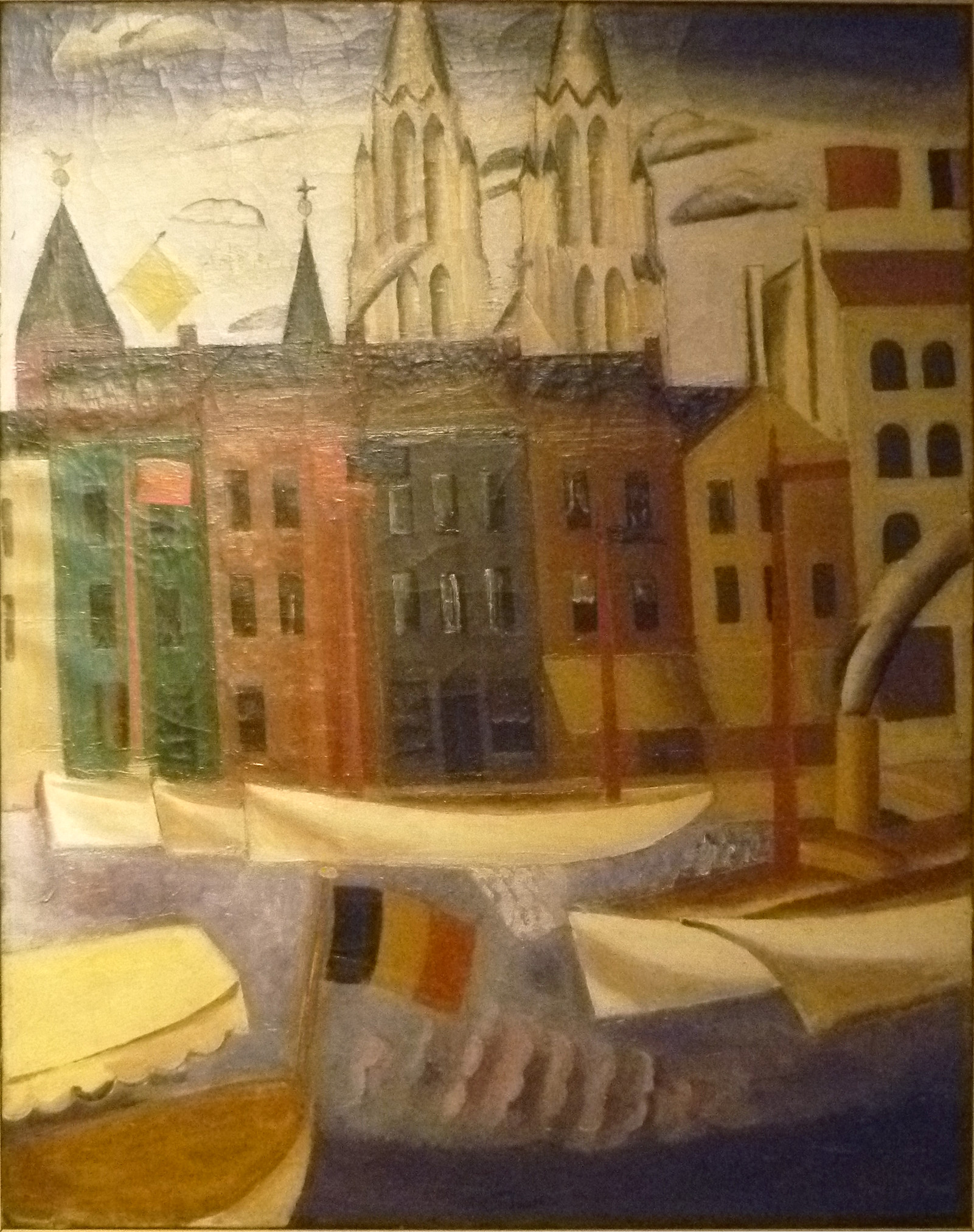 "The port of Ostend" (1925), oil on canvas by the Belgian expressionist painter Gustave De Smet; in private collection